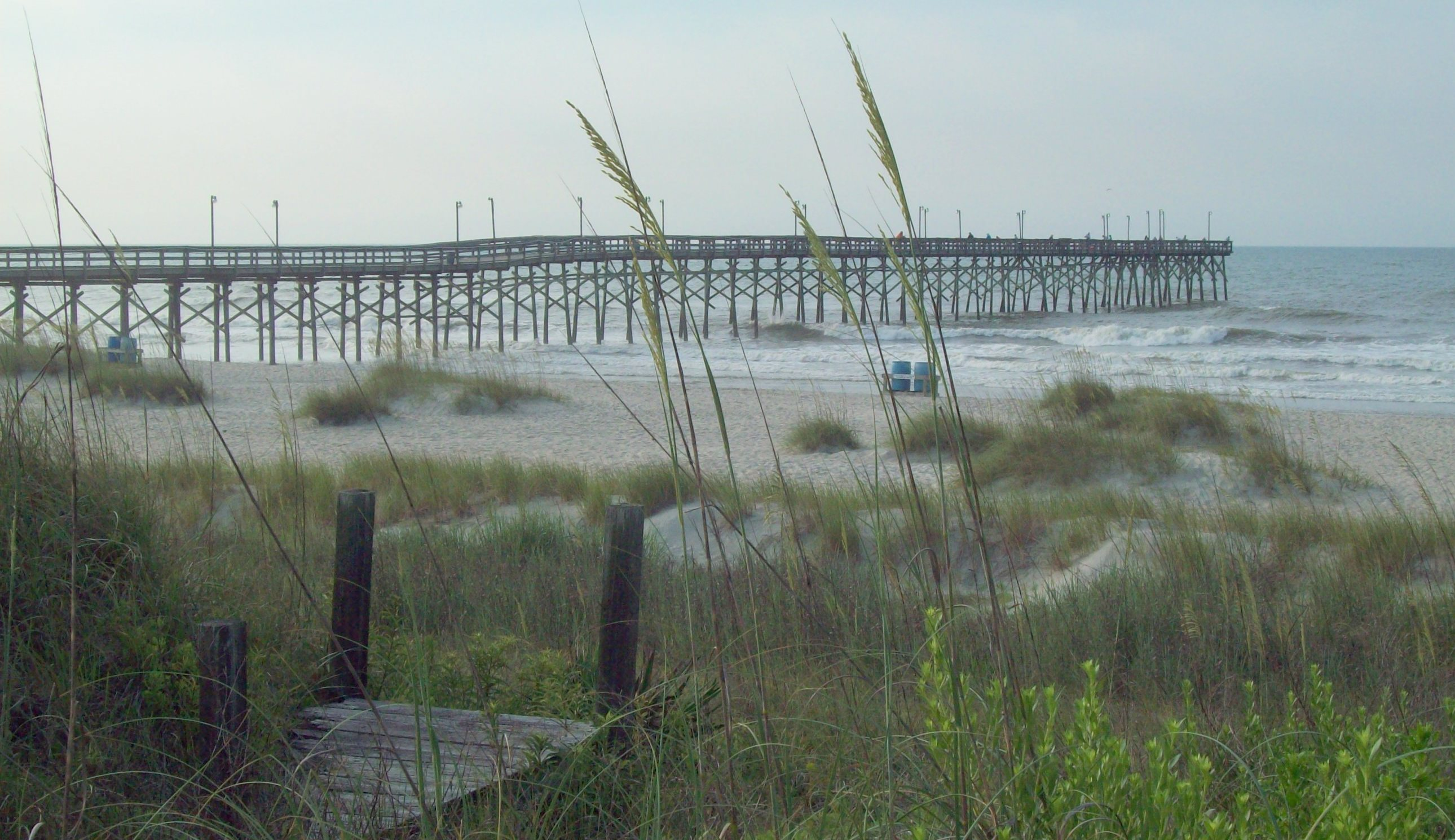 Fishing Pier at Ocean Isle Beach NC, June 2010